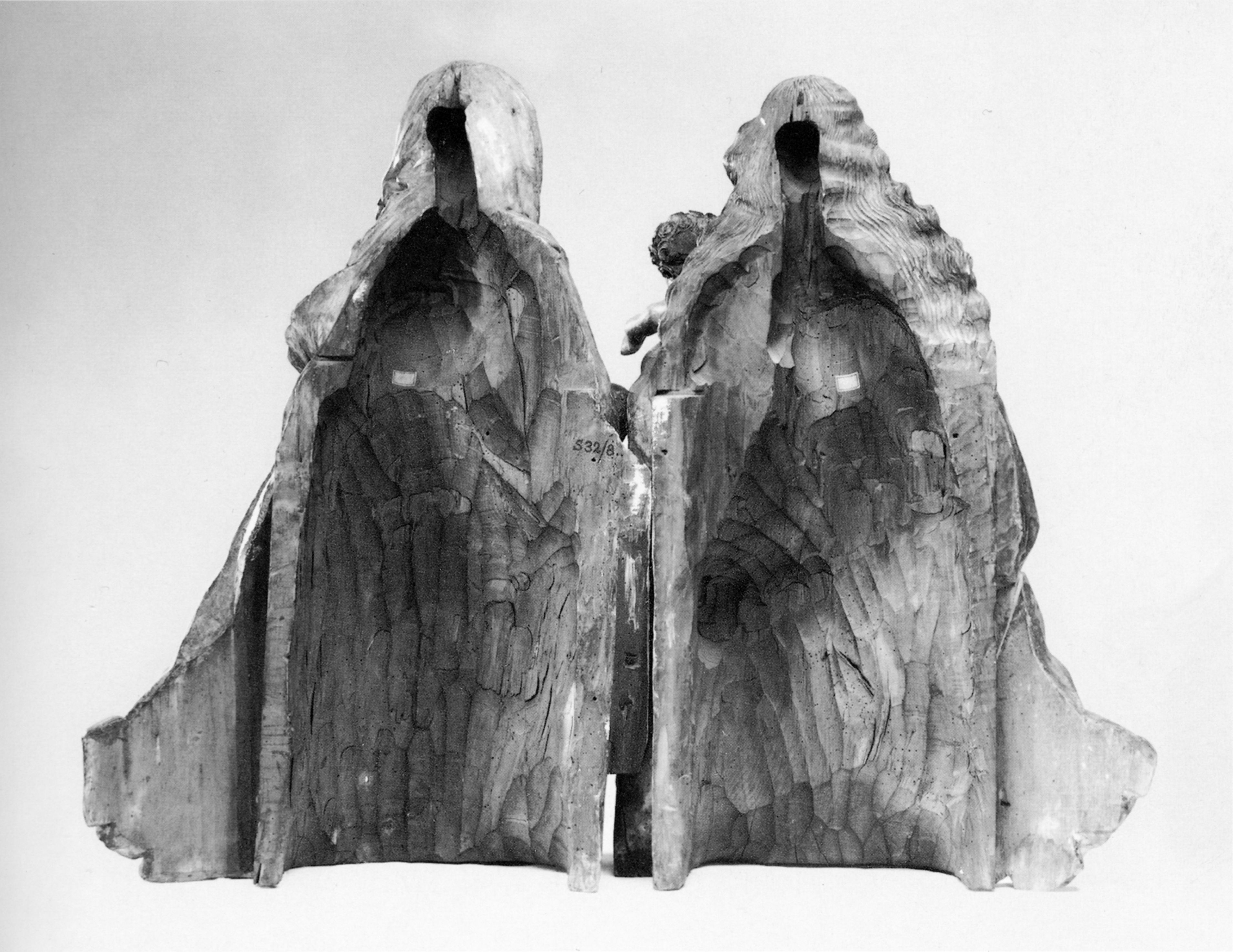 Foto of sculpture by Hans Wydyz, "Anna Selbdritt", back view